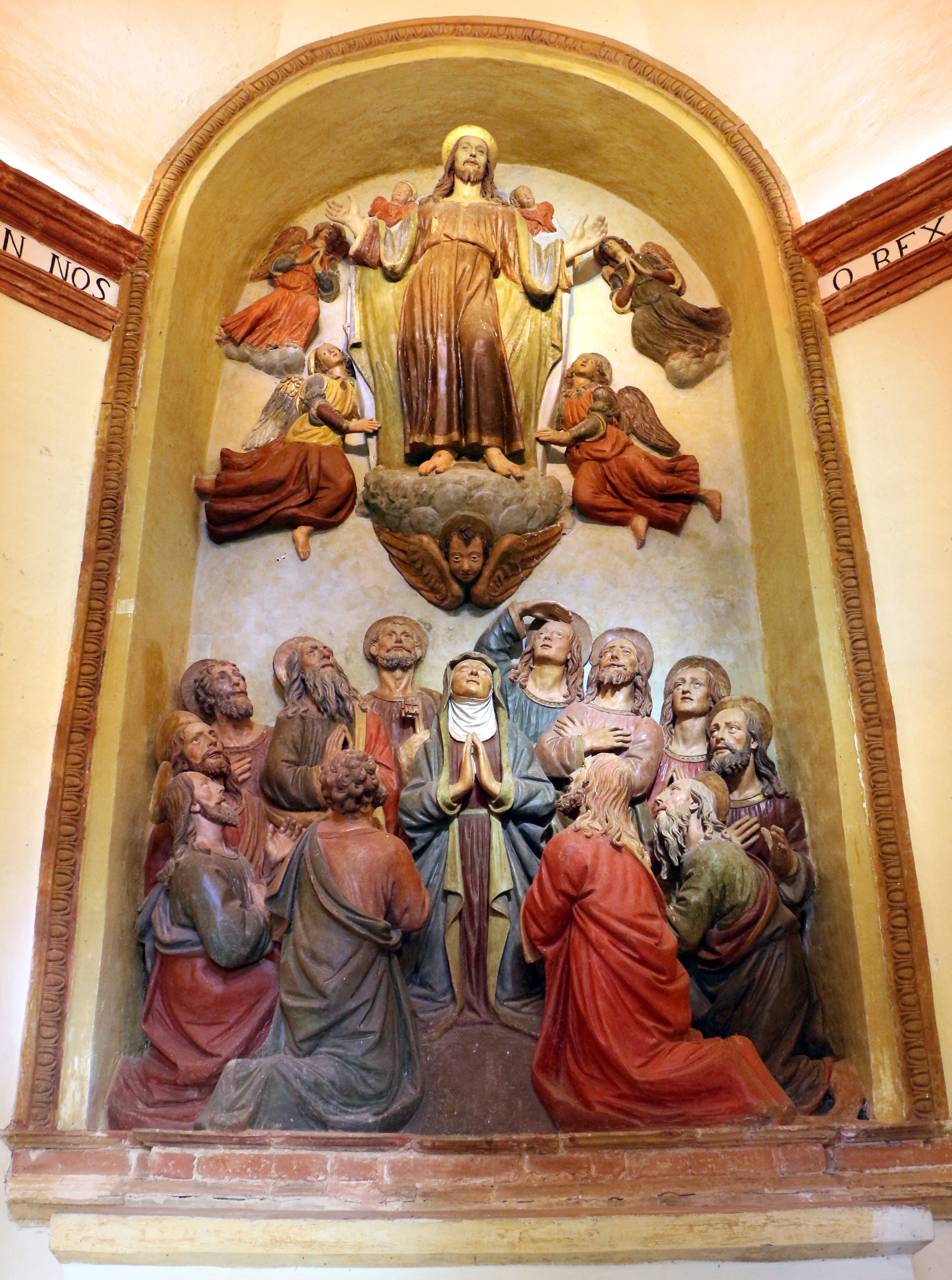 San Vivaldo Sacro Monte